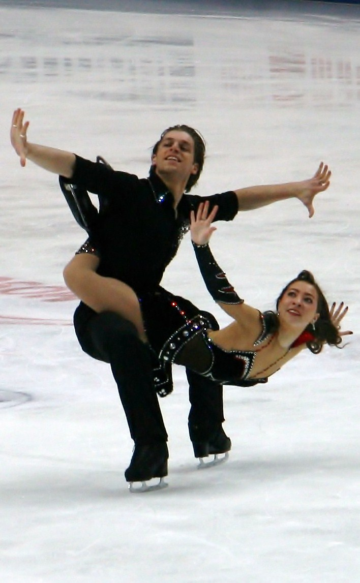 Allison Reed and Otar Japaridze at the 2011 World Figure Skating Championships